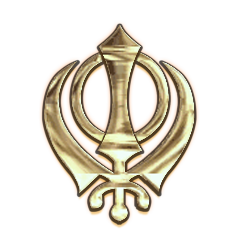 The Symbol Of Sikhism